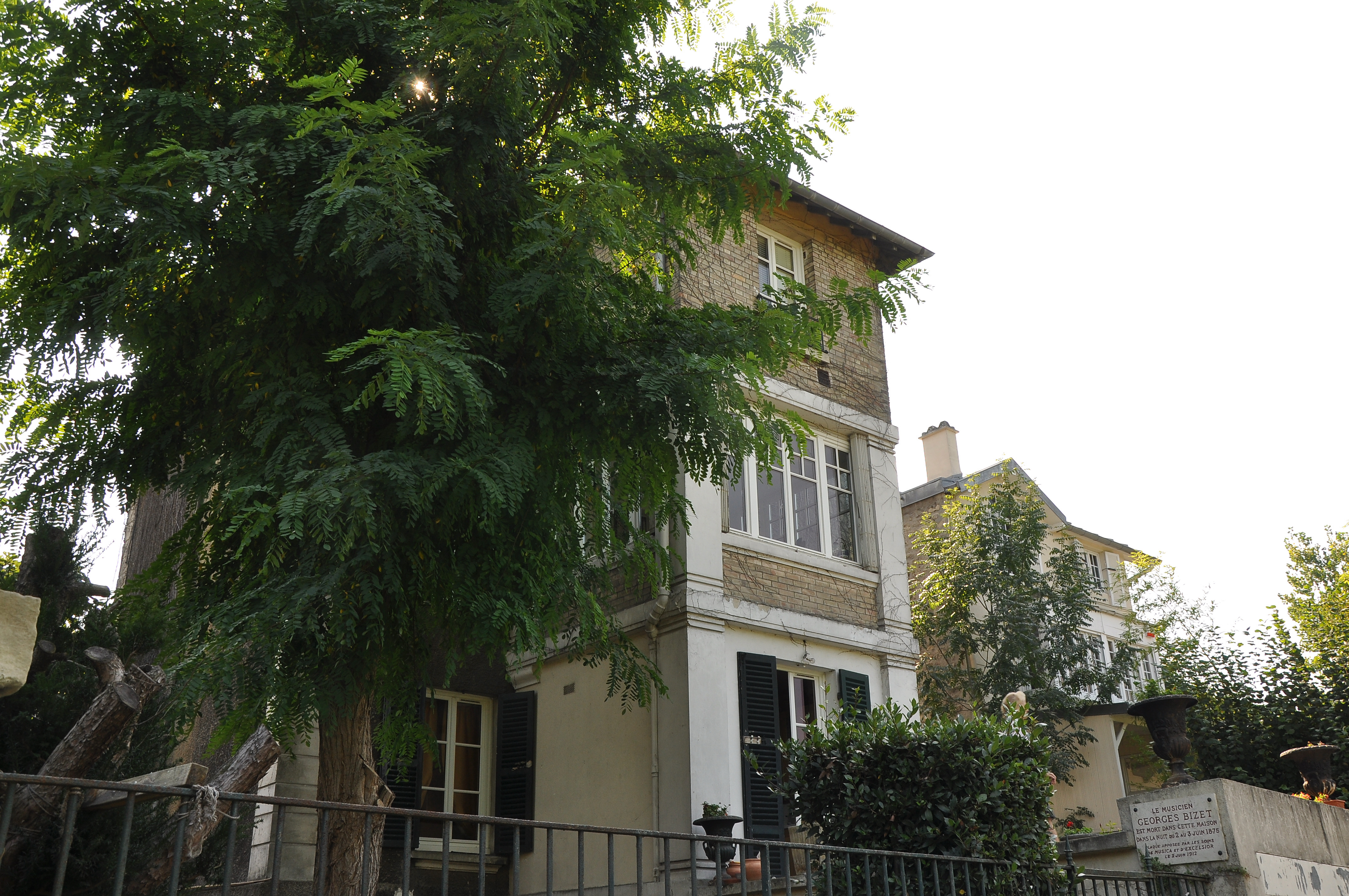 The house of Georges Bizet in Bougival, departement of Yvelines, France.